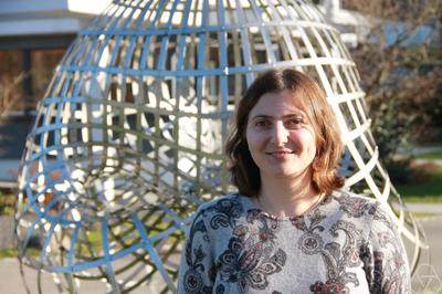 Virginia Vassilevska Williams at the Mathematical Research Institute of Oberwolfach, 2012